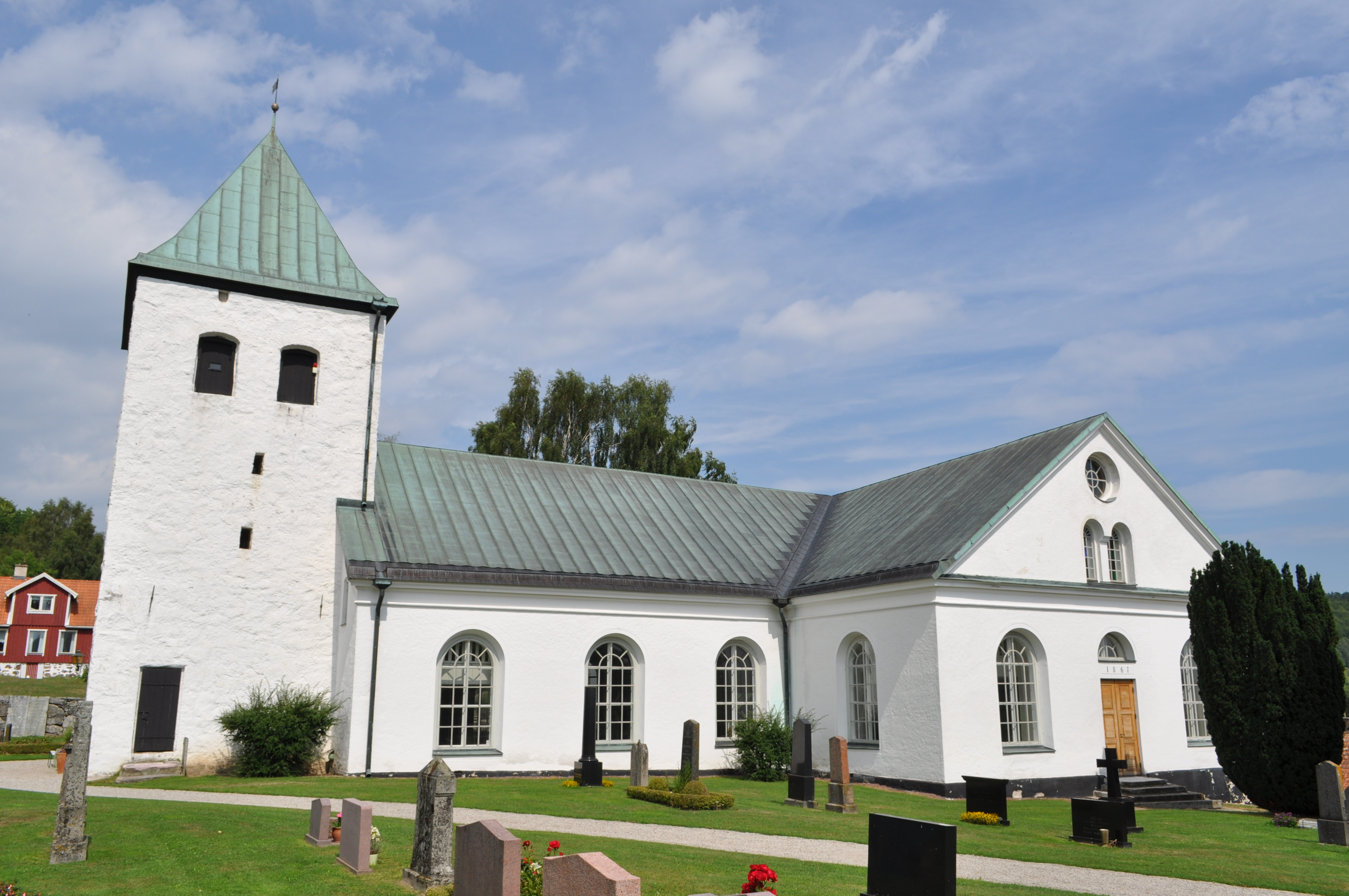 Vånga church - kyrka